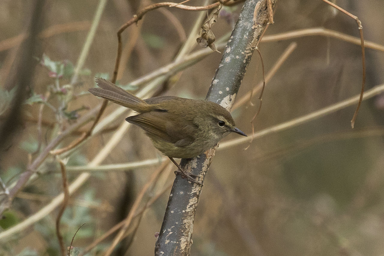 Brownish-flanked Bush-Warbler - Arunachal Pradesh - India_FJ0A7617